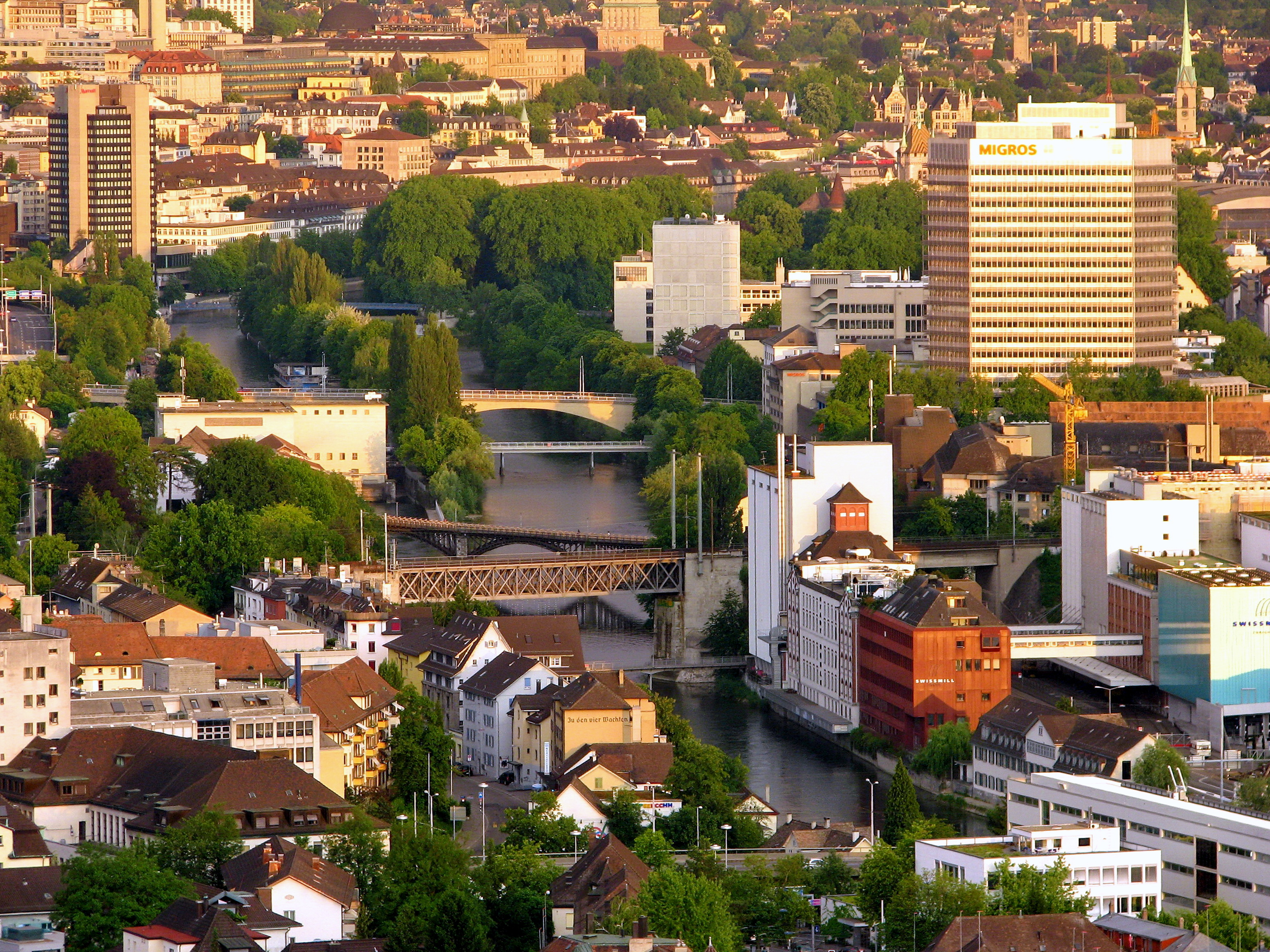 Limmat river at Zürich-Höngg and Category:Industriequartier, seen from Käferberg-Waidberg